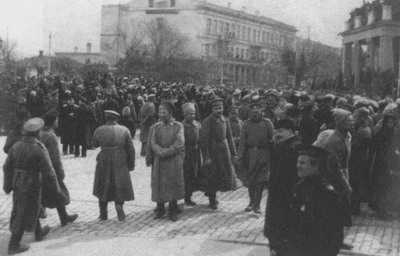 Russian revolution of 1917. Sebastopol naval base. Nakhimov square. Manifestation 8th of October 1917